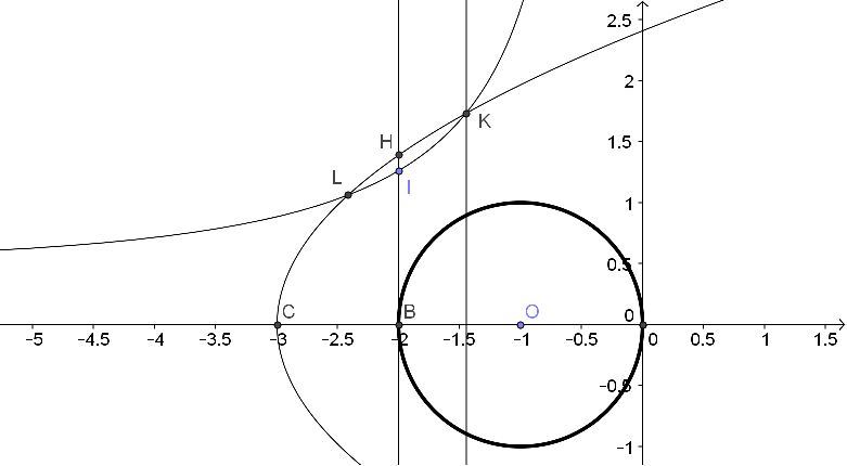 To cut a sphere in a given ratio, using a parabola and a rectangular hyperbola.